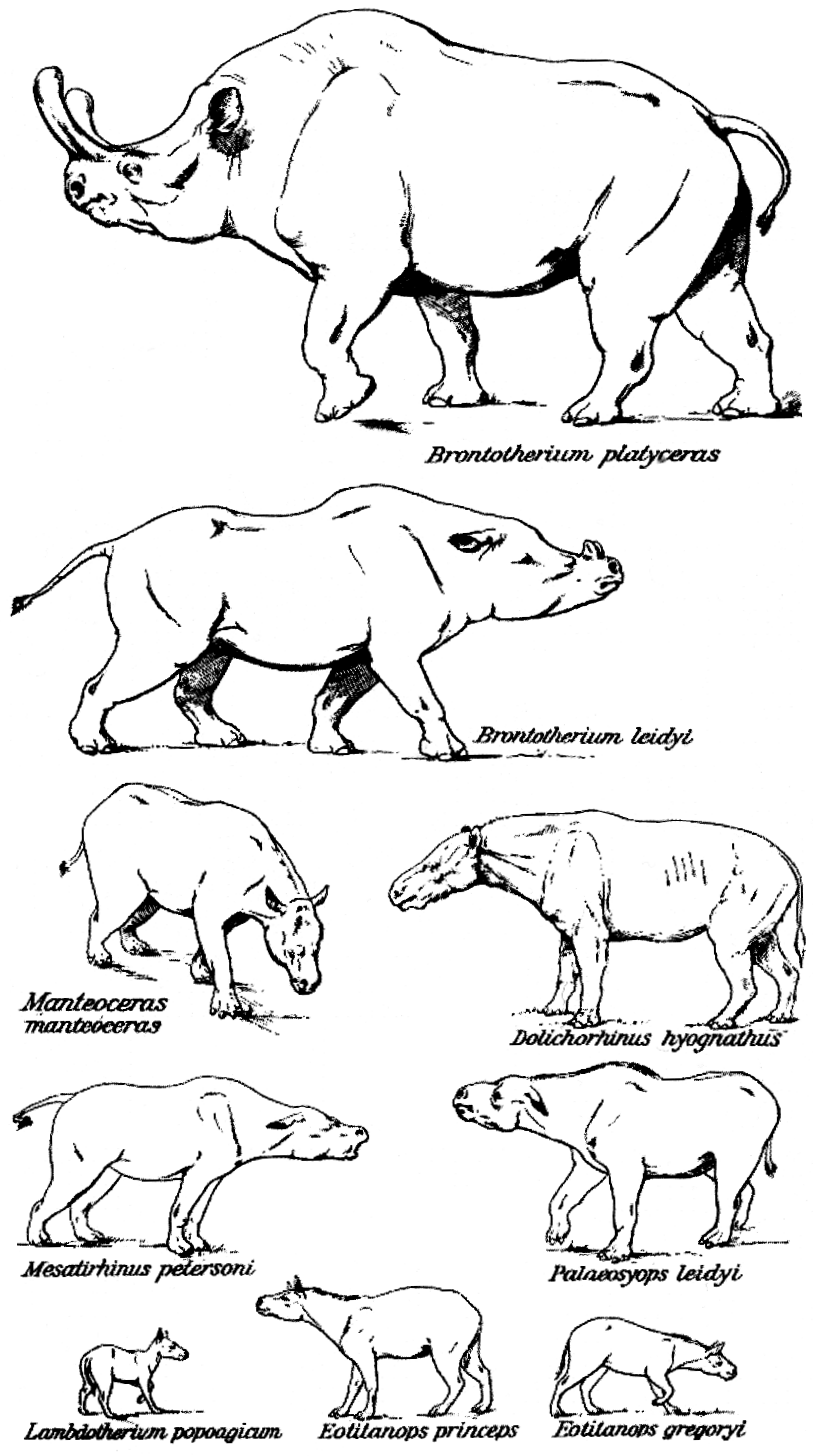 Evolution of Titanotheres by Osborn 1929: Titanotheres of ancient Wyoming, Dakota, and Nebraska. United States Geological Survey Monographs 55, 1929, p. 1–894 (p. 724), reprinted in Matthew C. Mihlbachler: Species taxonomy, phylogeny, and biogeography of the Brontotheriidae (Mammalia: Perissodactyla). Bulletin of the American Museum of Natural History 311, 2008, ISSN 0003-0090, p. 1–475 (p. 7)